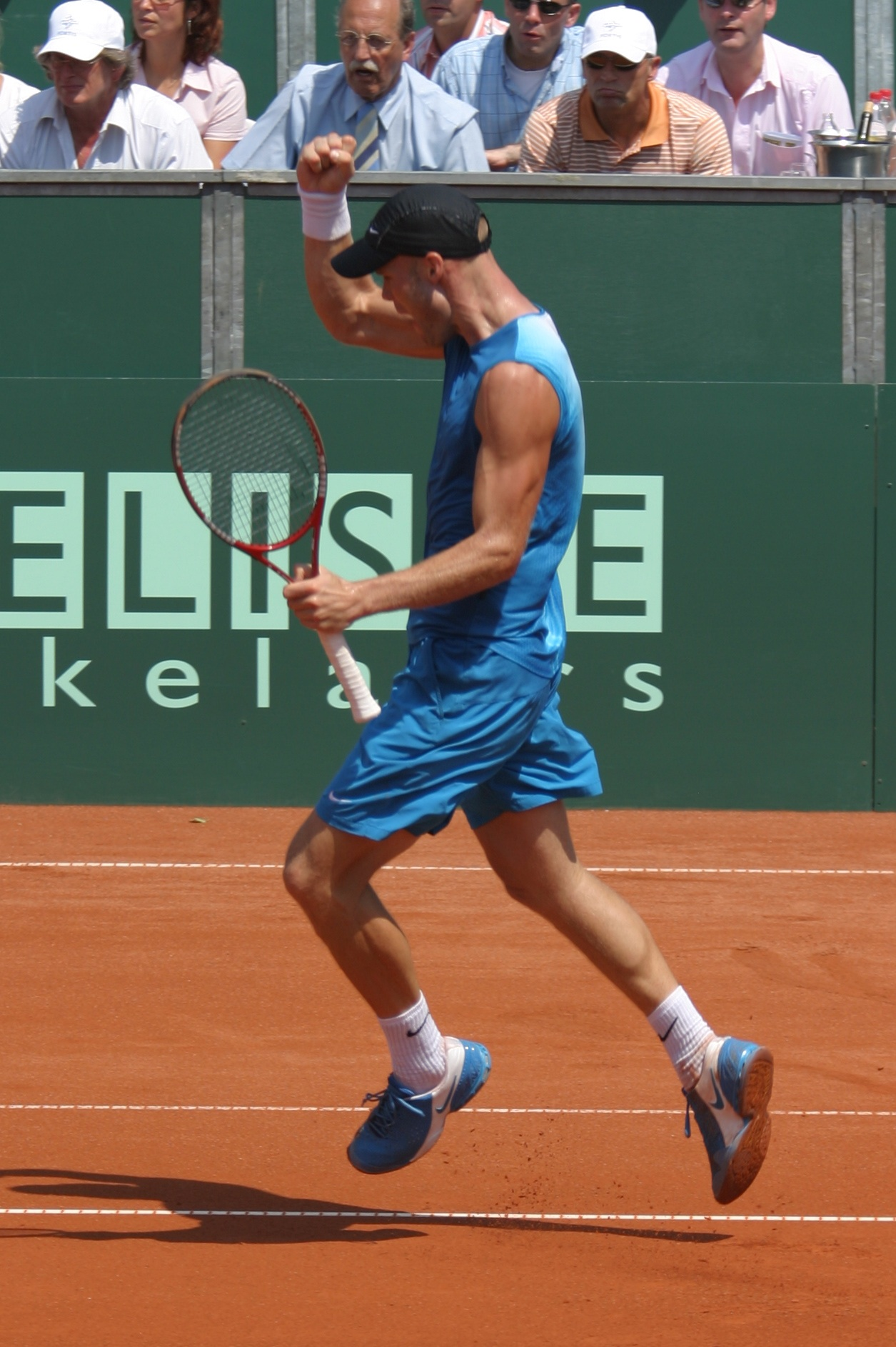 match point; Van Gemerden wins 2005 Scheveningen Challenger